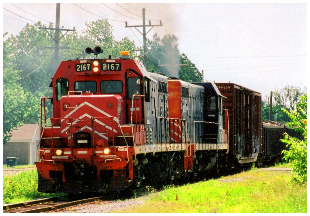 Missouri and Northern Arkansas Railroad #2167, GP7U